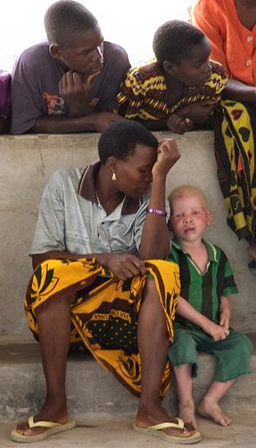 His mother said that he was a mistake, but was reassured he was a blessing.